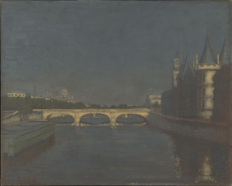 Tableau